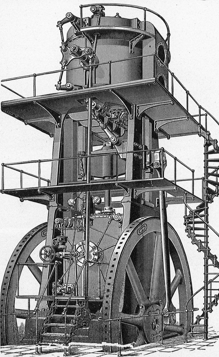 Fig. 237 A blowing engine of very large size, built by the E. P. Allis Co. of Milwaukee. The steam cylinder is 42" diameter, the air cylinder 84" and the stroke 60". Valve gear is of the Reynolds-Corliss type.